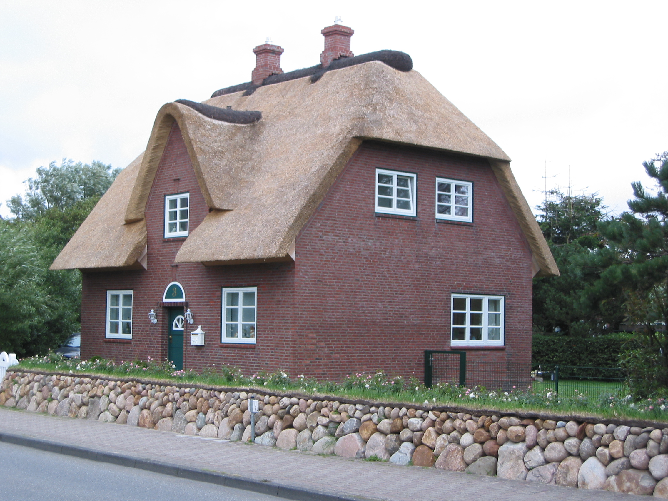 Freshly thatched roof (Westerland)